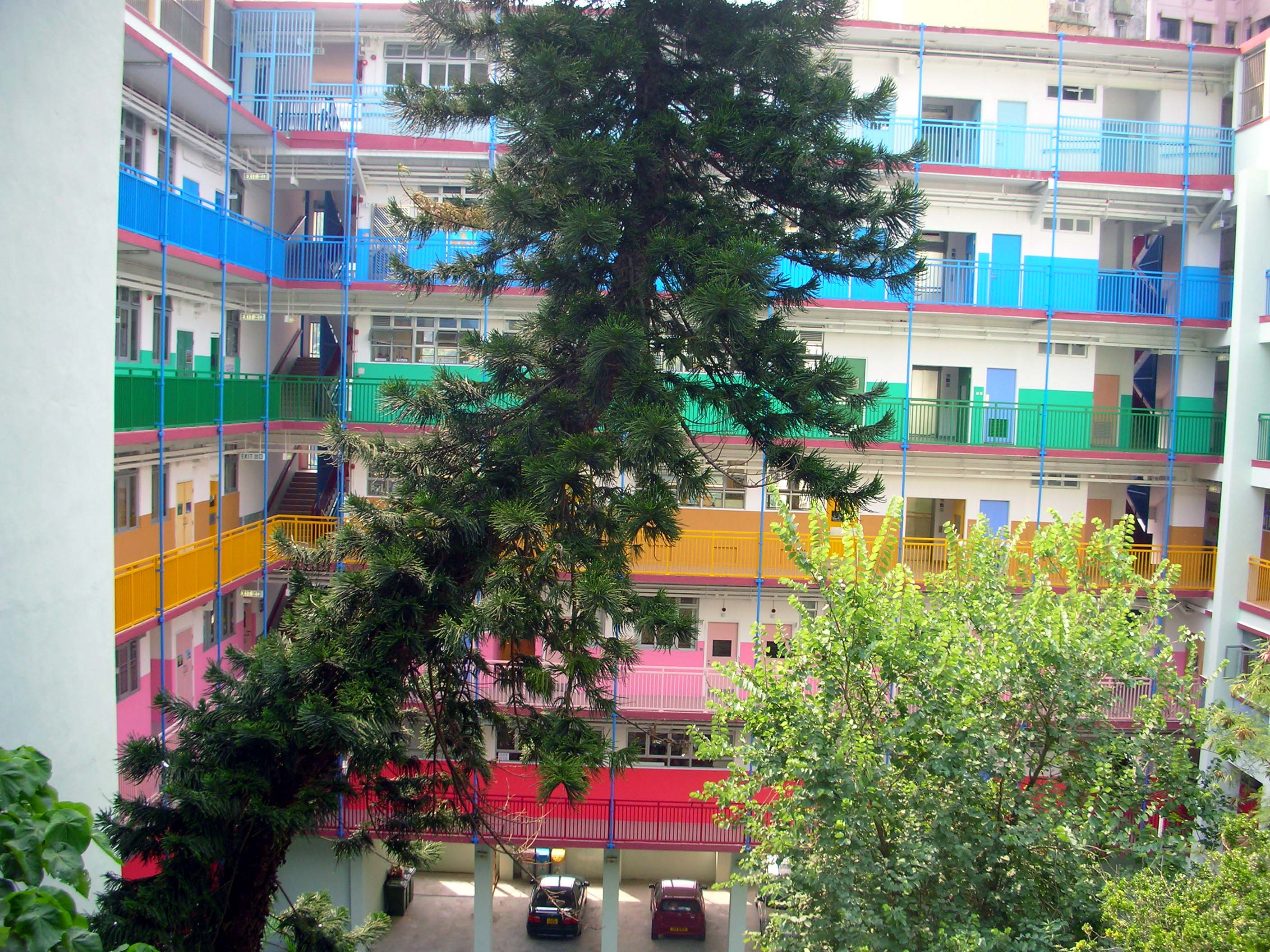 St. Mark's Primary School, located at Shau Kei Wan, Hong Kong 聖馬可小學